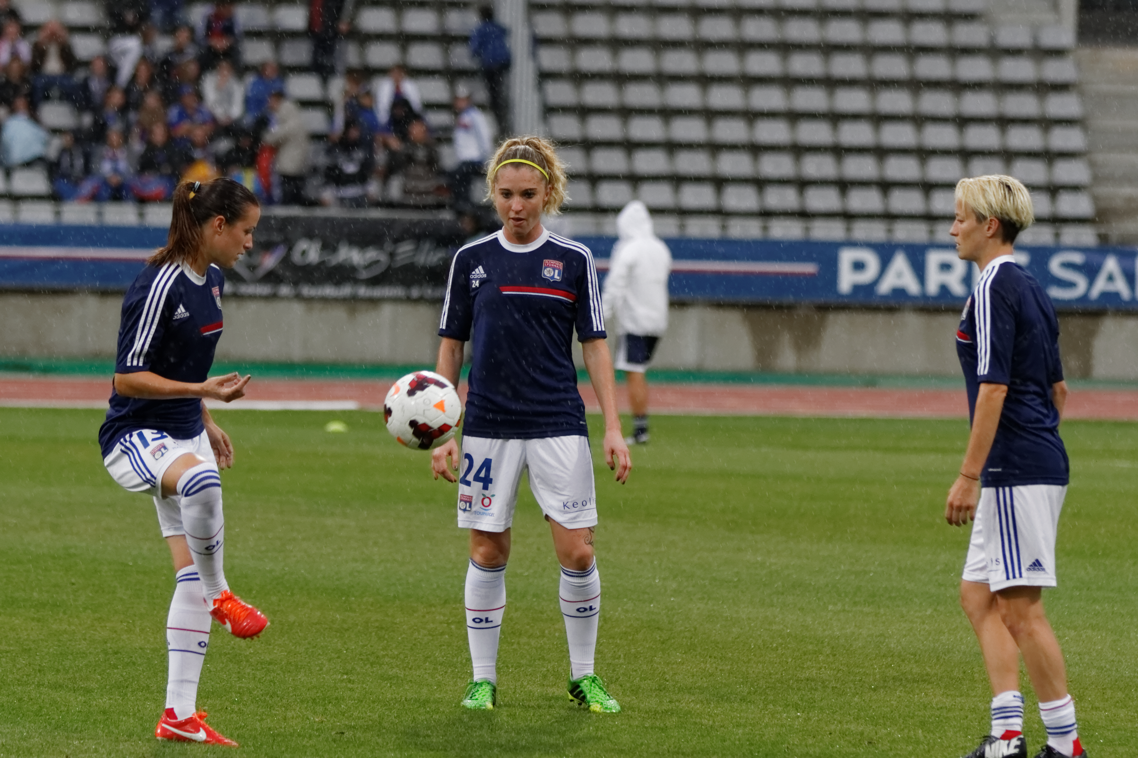 PSG-Lyon, September 29th, 2013.